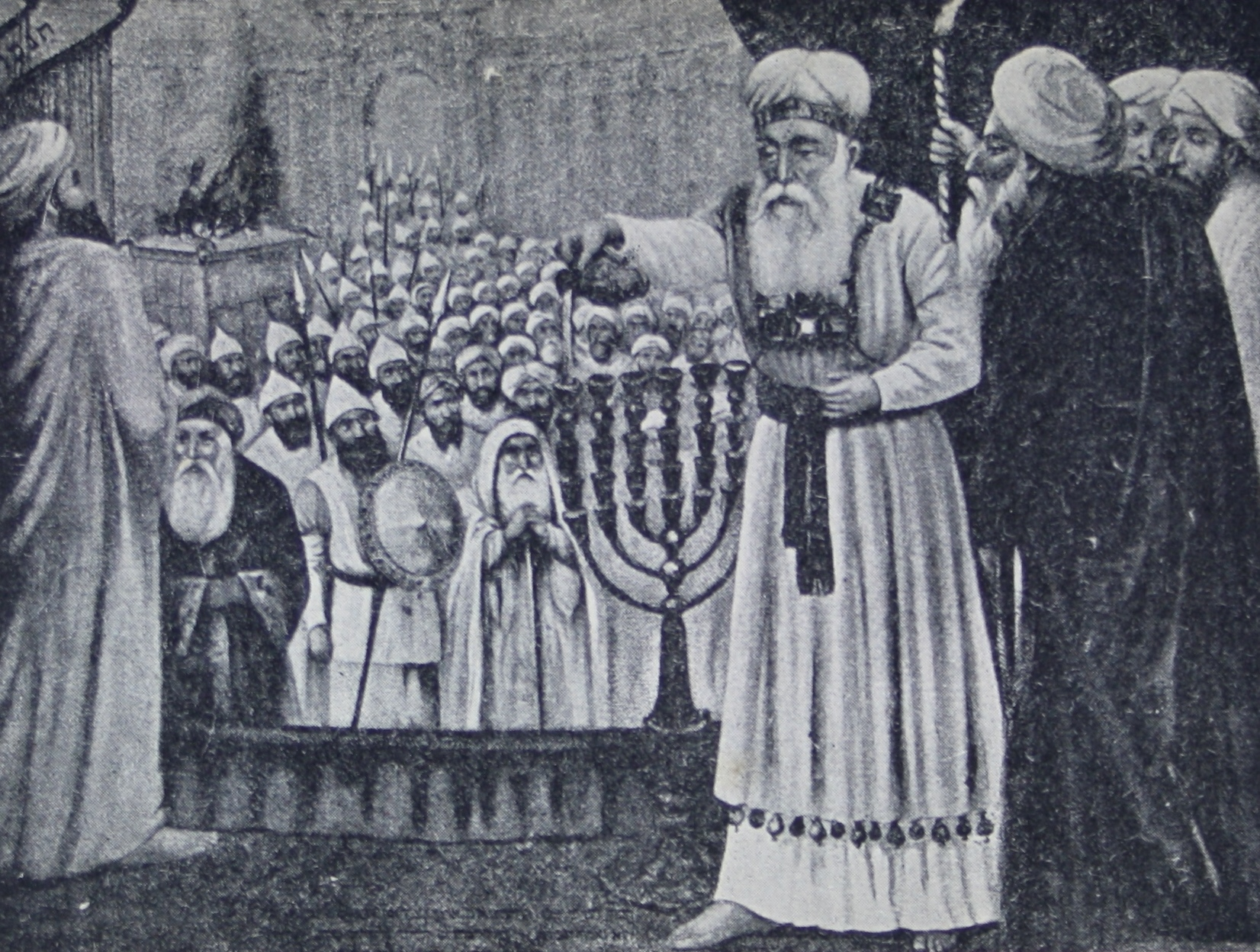 Jewish New Year cards